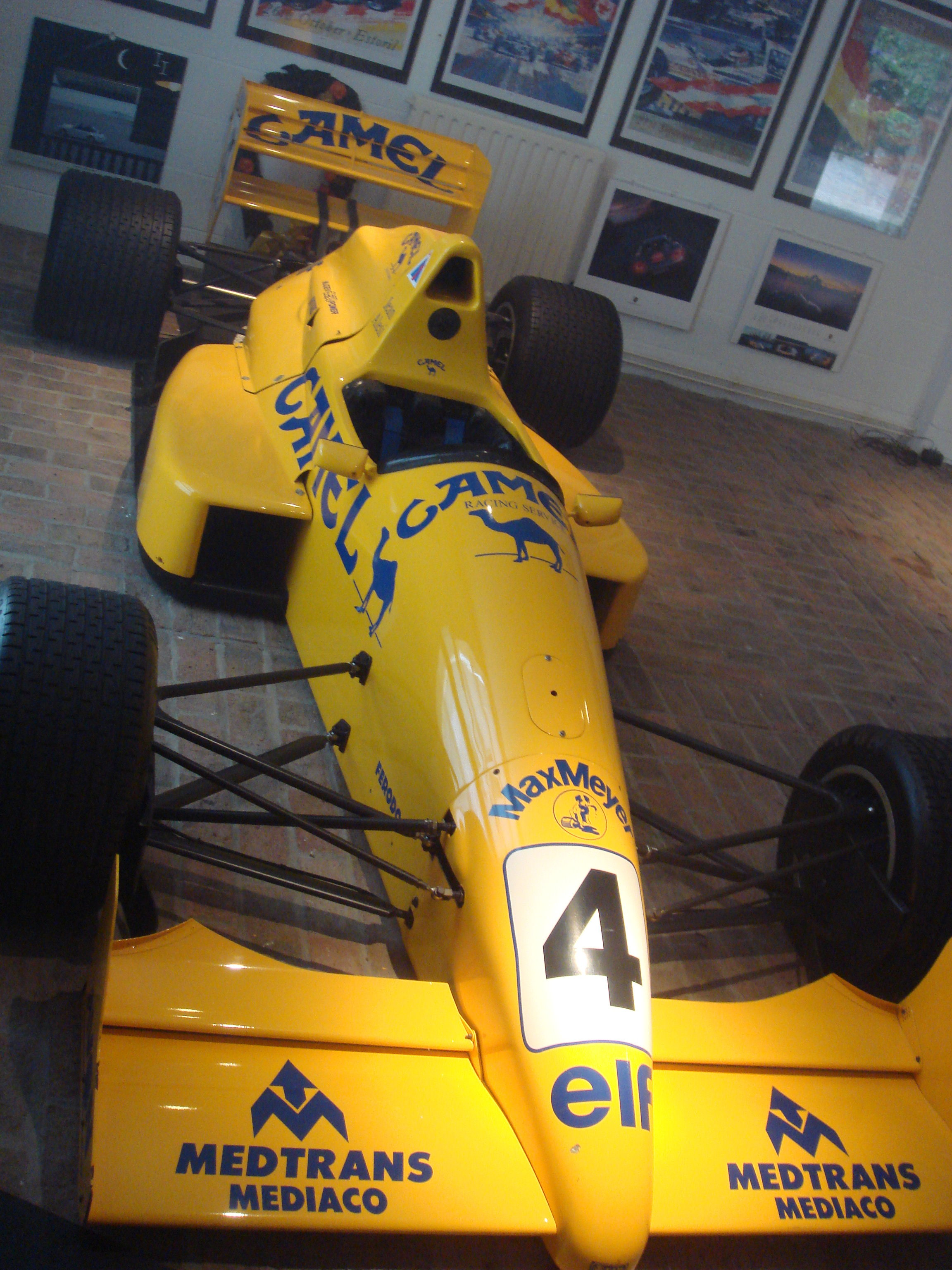 Team AJS Formula 3000 car, driven by Jean Alesi